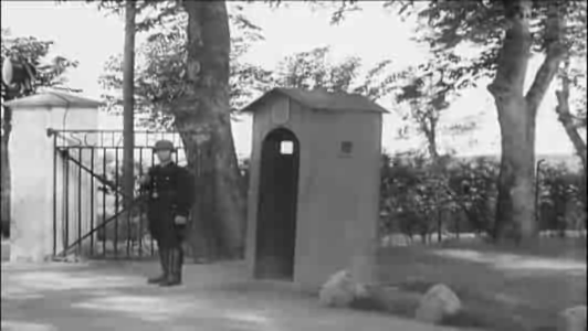 Video still image number 7487 of 14239, at 05:00. See also File: Waffen-SS memorial and raw footage (Denmark, 1944).ogv